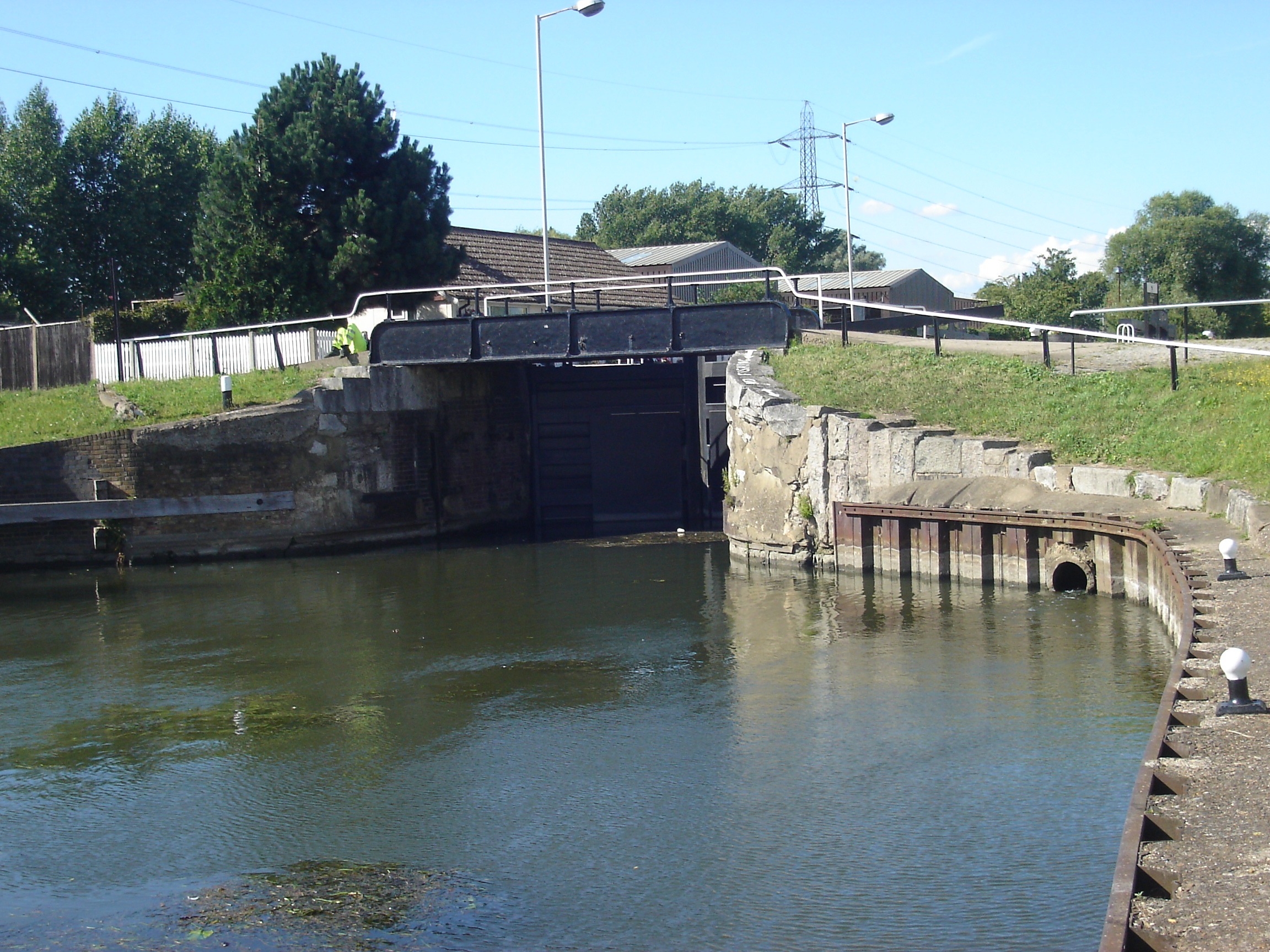 Picture taken below Picketts Lock, Edmonton